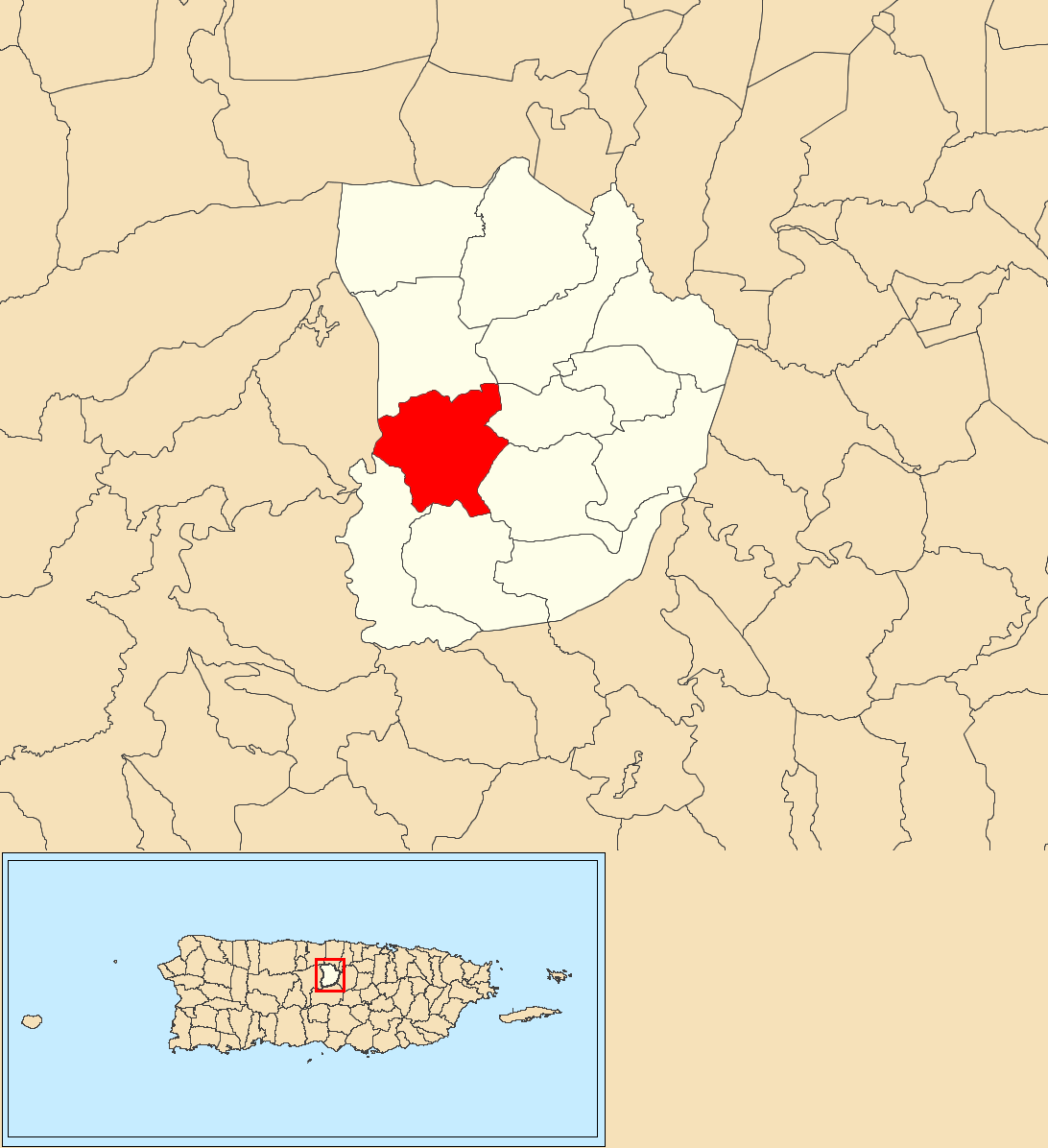 San Lorenzo, Morovis, Puerto Rico locator map